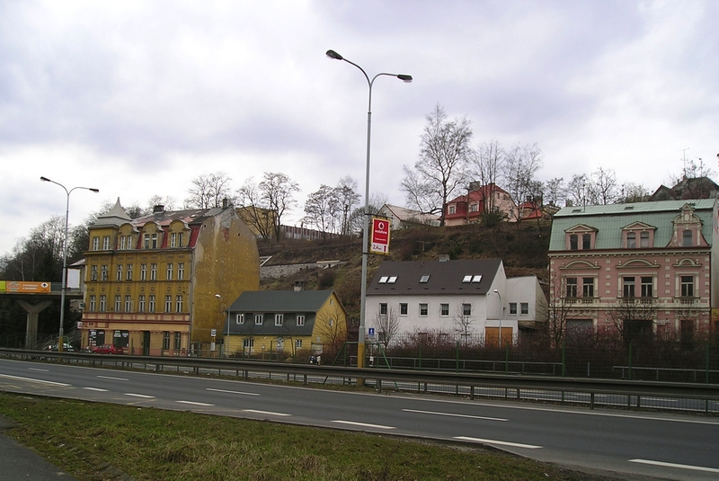 Táborská street Česky: Táborská ulice v Karlových Varech - Bohaticích